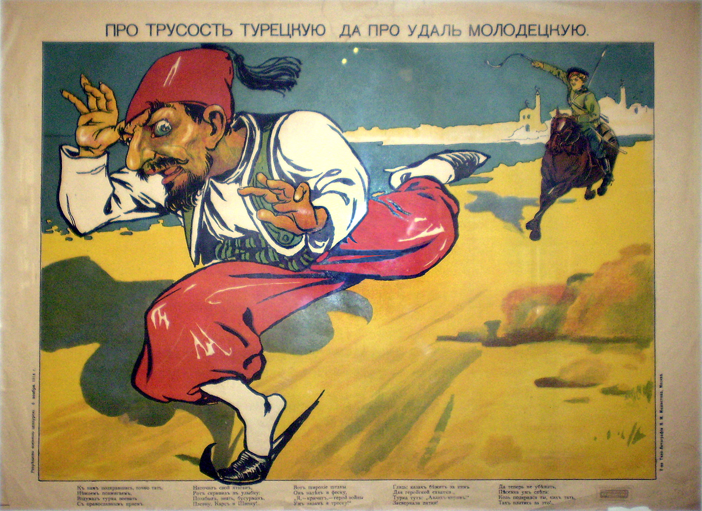 Russian propaganda poster: "Turkish cowardice and valiant prowess", Moscow, November 1914. Krasnoyarsk Museum of Regional Studies. The poster shows a Russian chasing a running Turk, i.e. Osman.